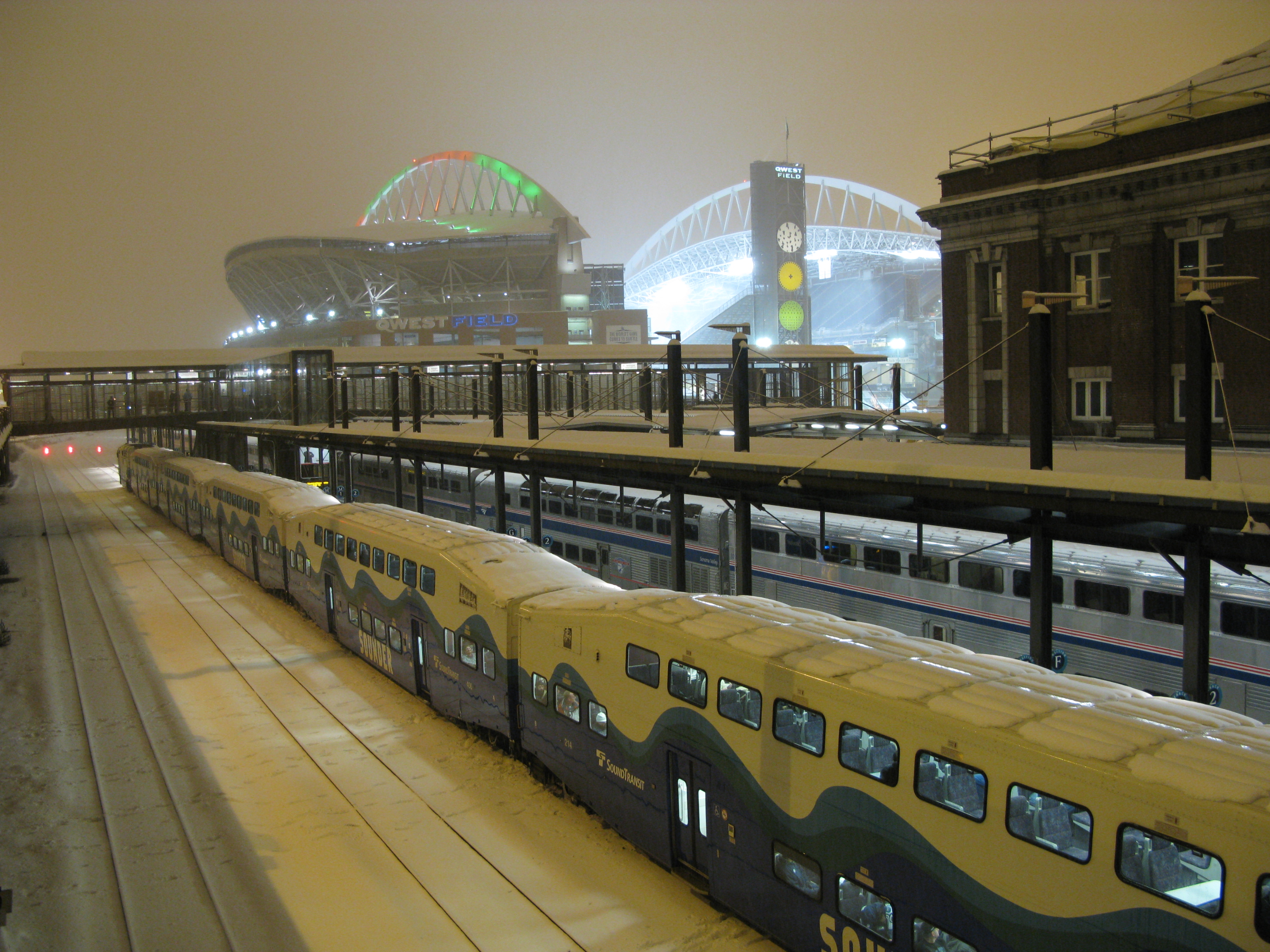 The last Seahawks Sounder southbound train to Tacoma at King Street Station in Seattle, waiting for the signal to proceed out of the station. To the rear is Amtrak's Coast Starlight.